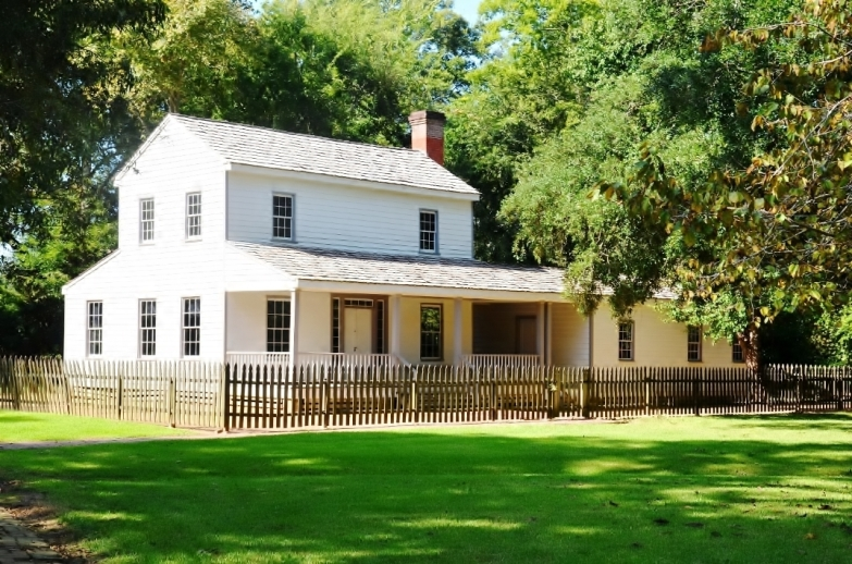 French Home Trading Post